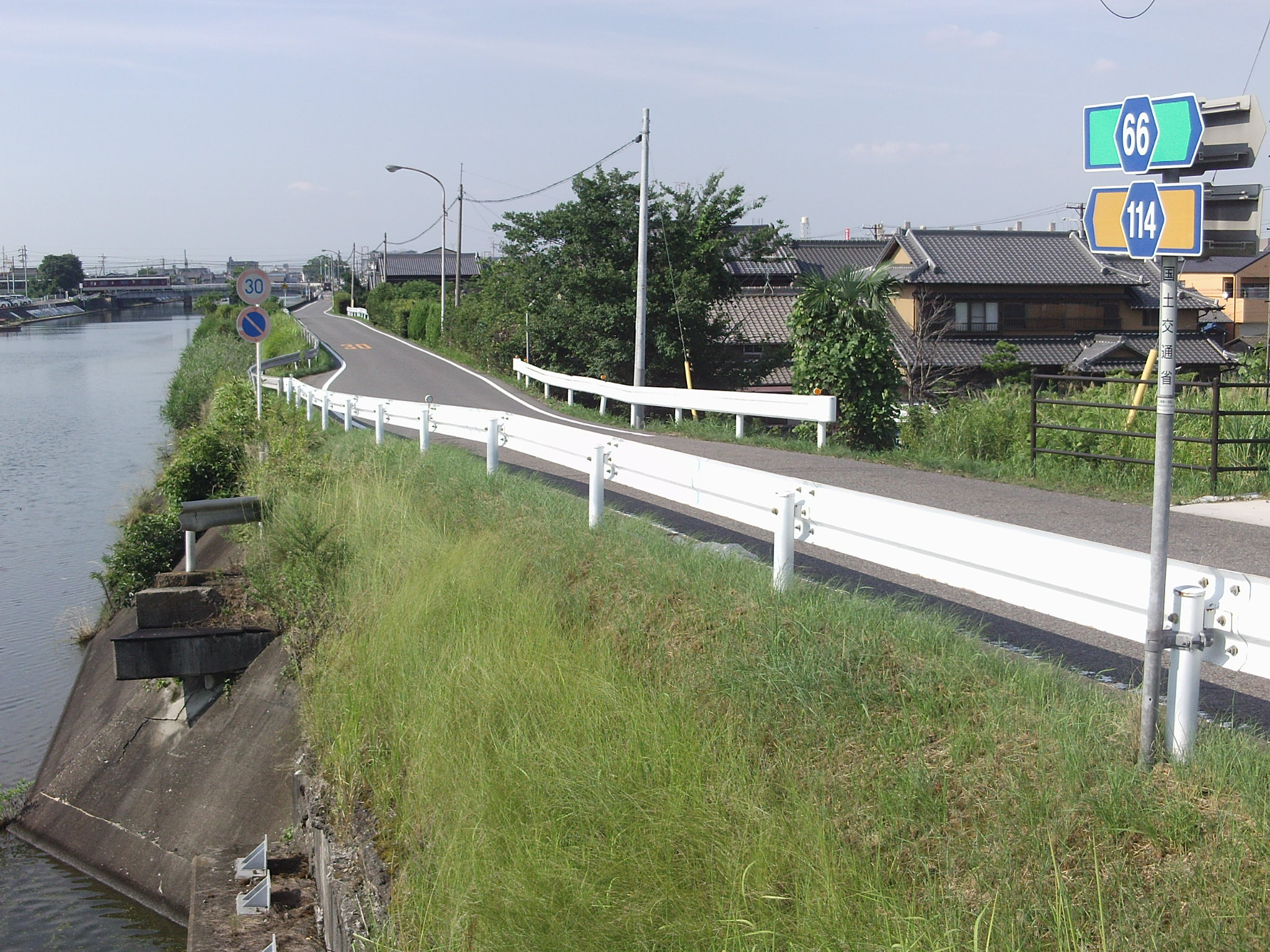 Aichi prefectural road No.114 in Takara 1-chome, Kanie-cho, Ama-gun, Aichi.